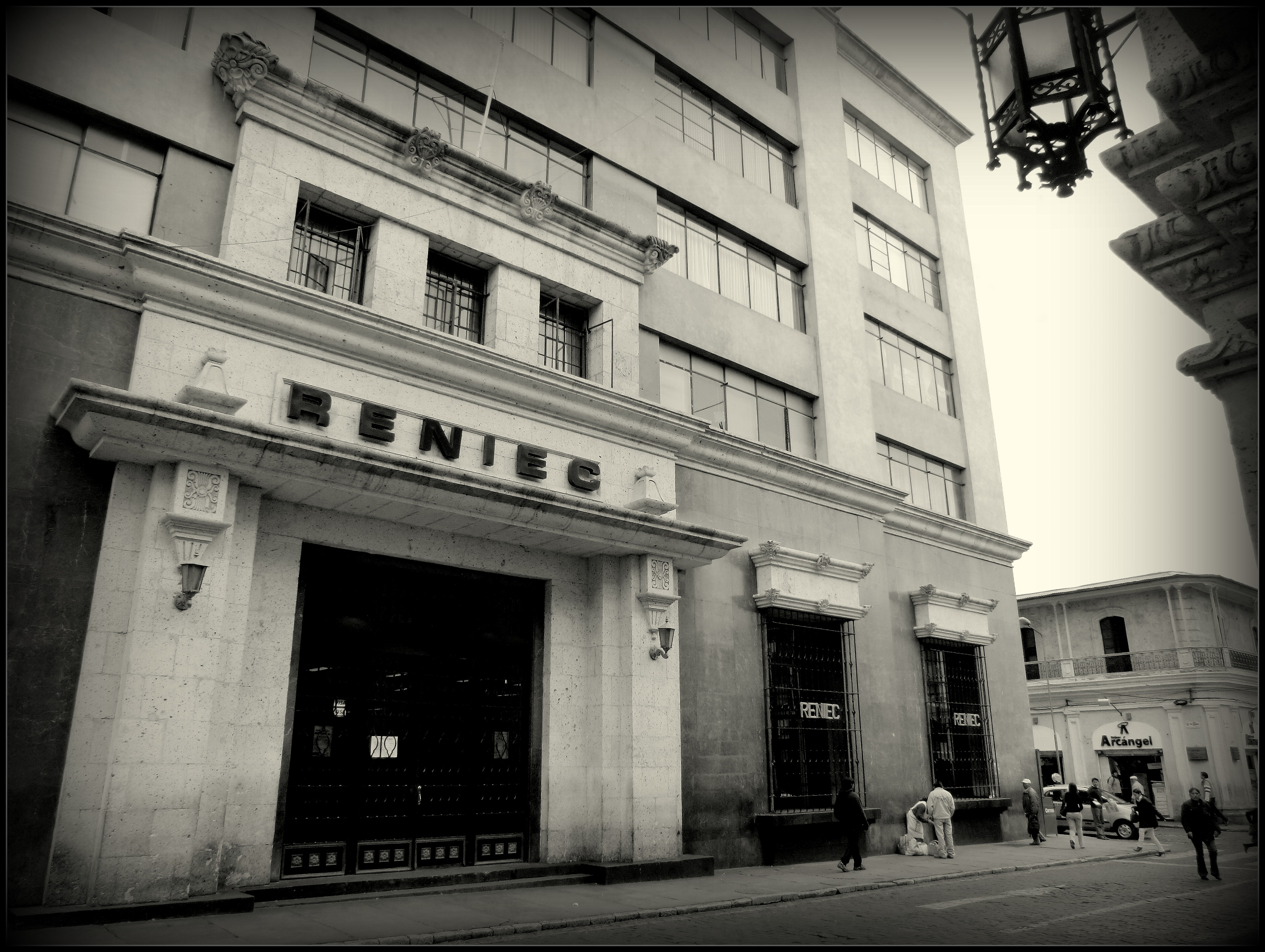 RENIEC Neocolonial Building in the intersection of Santo Domingo St. and General Morán St. Arequipa City.